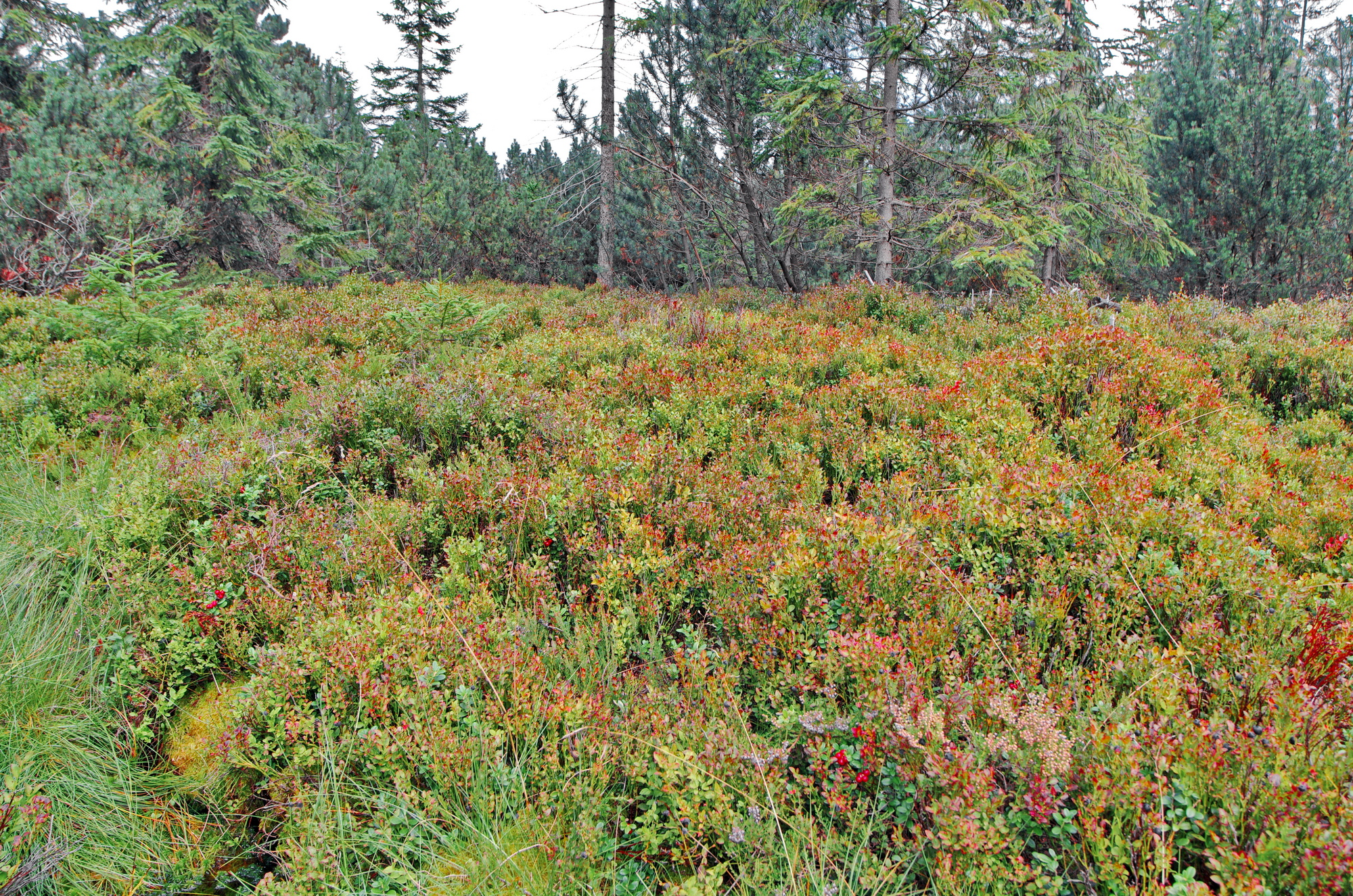 Nature reserve Oceán, Ore Mountains in Karlovy Vary District, Czech Republic